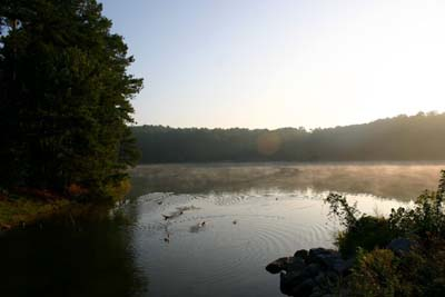 Lake at Murphey Candler Park — in Brookhaven (Atlanta), Georgia.